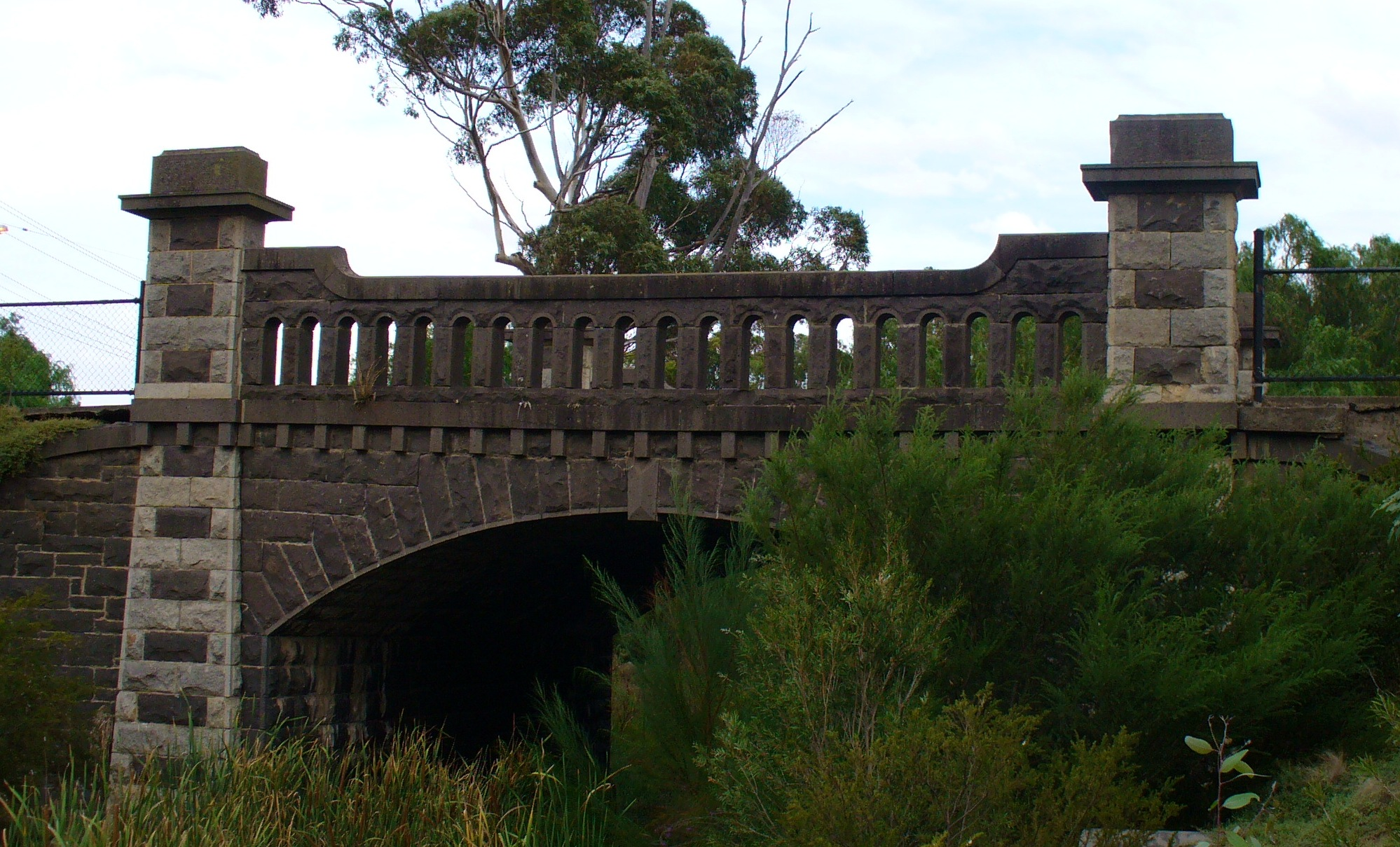 Photo of Westmeadows (Victoria, Aust) bluestone bridge. Own work. Created: 2007-03-23 Author: DSC I release into public domain. Please acknowledge me as the author